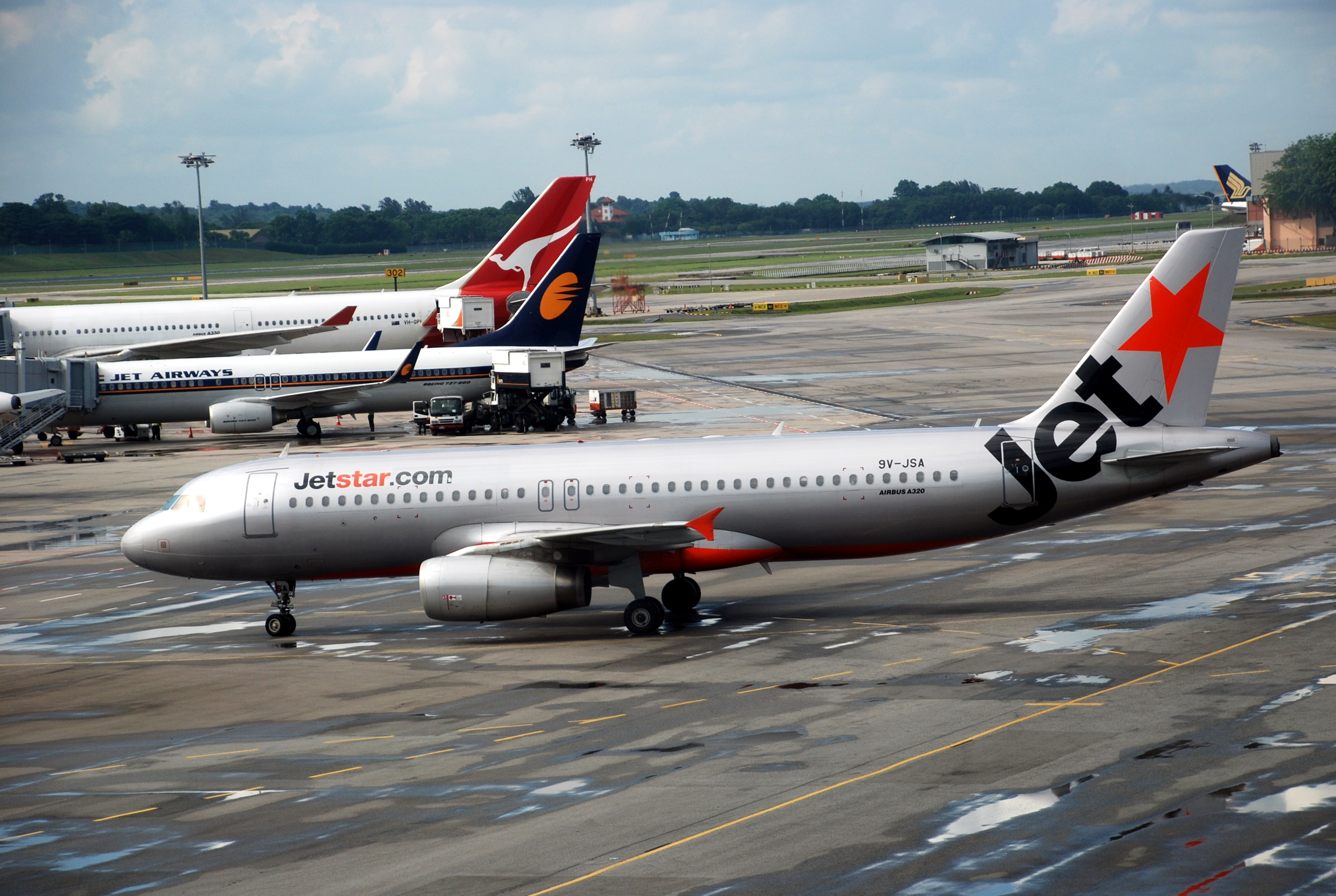 Jetstar Asia Airbus A320-200 taxiing (9V-JSA) at Singapore Changi Airport.